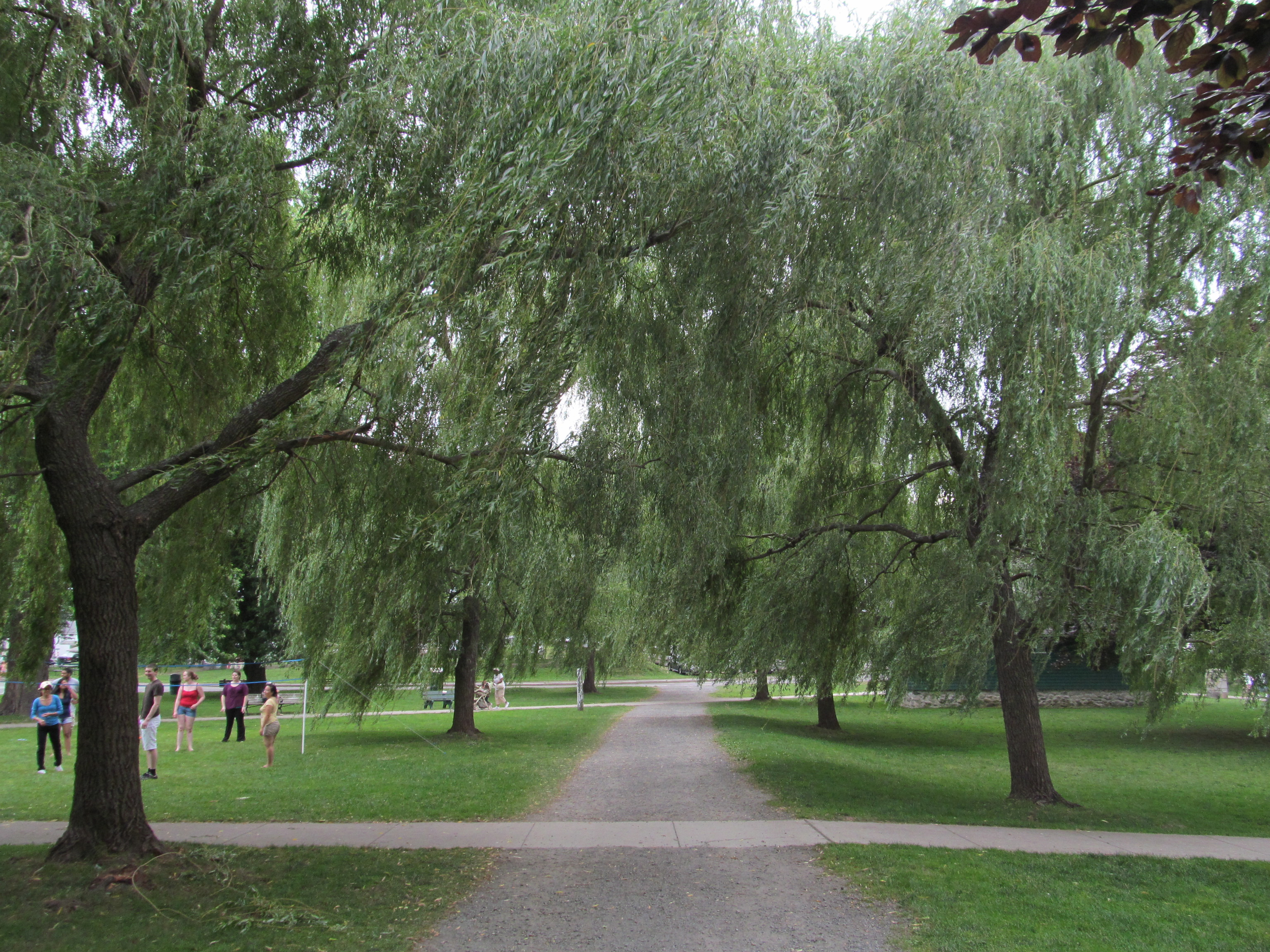 Salem Willows Park, Salem Massachusetts